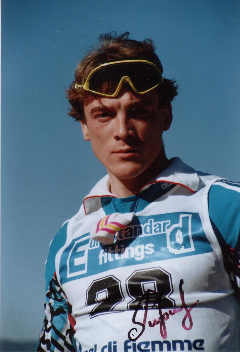 Photo of Andrey Kirilov from world cup cross-country ski in Val di Fiemme, where he took the gold medal.